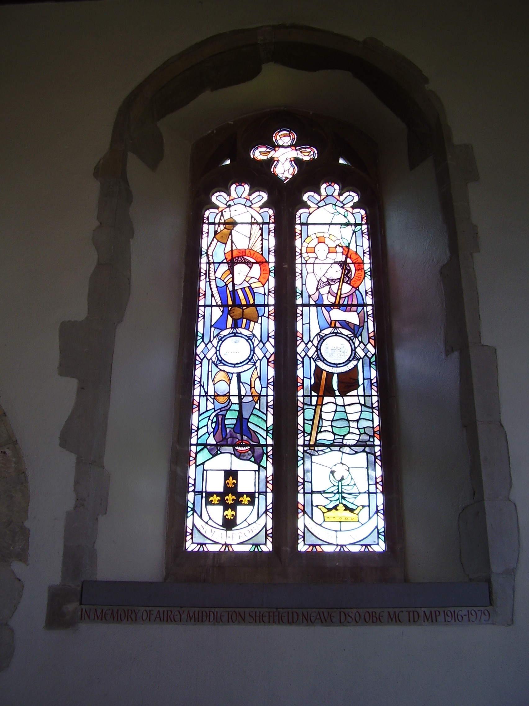 Photograph of church memorial window to Airey Neave MP